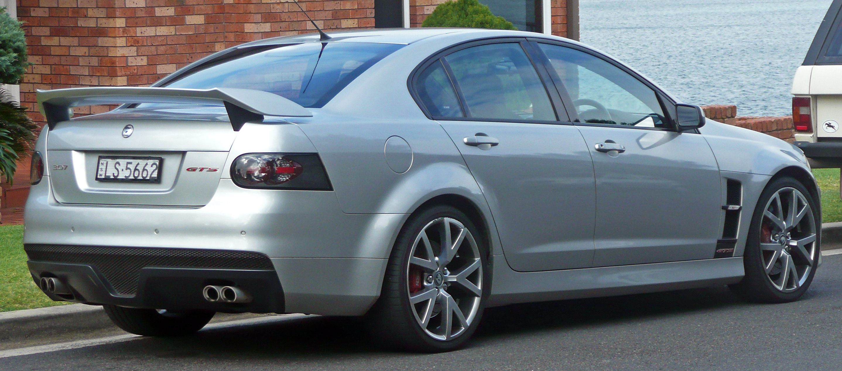 2006–2009 HSV GTS (E Series) sedan. Photographed in Cronulla, New South Wales, Australia.